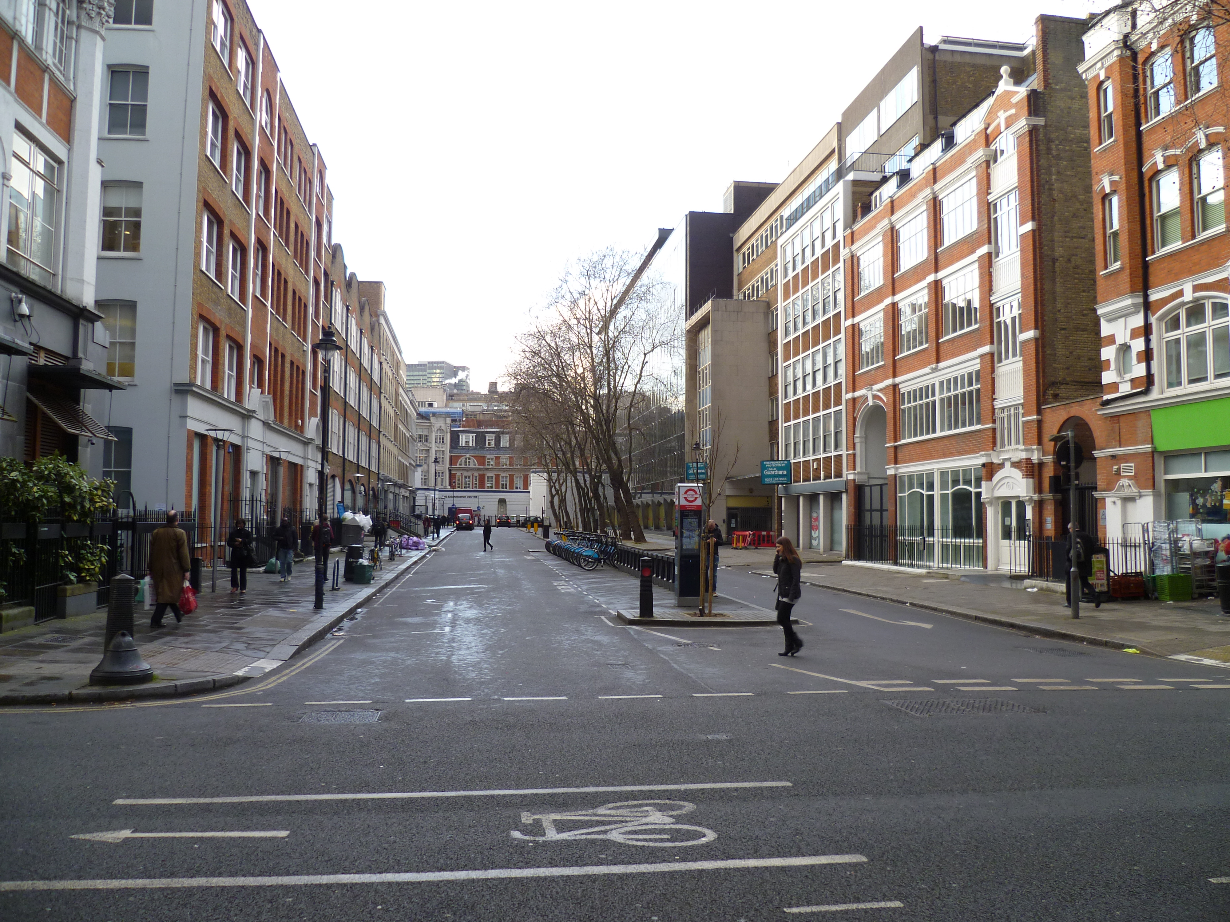 London